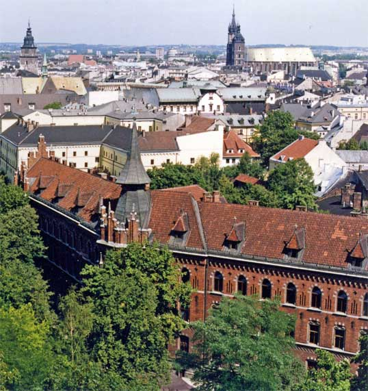 Kraków, Poland by Gouwenaar from the Dutch Wikipedia.